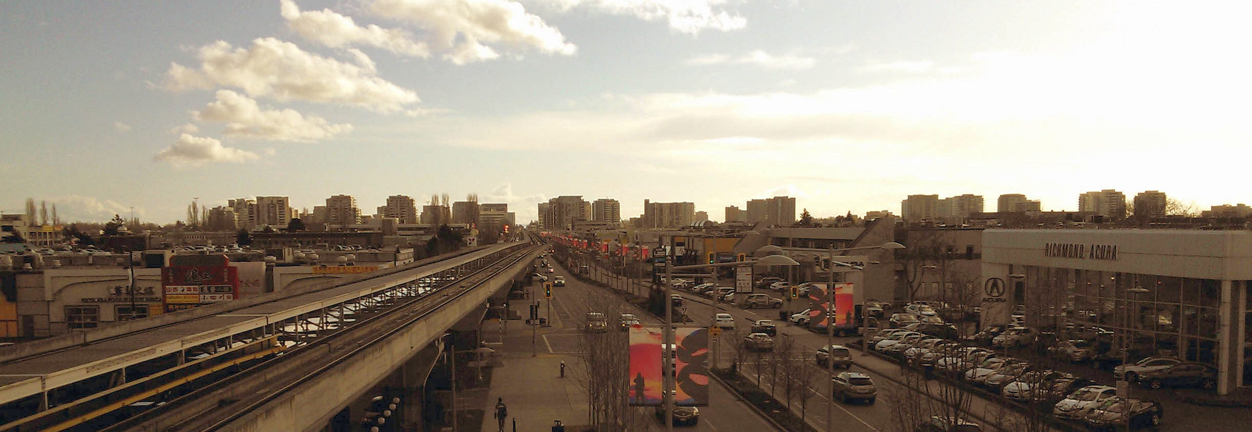 The skyline of Richmond, BC, Canada taken from Aberdeen Station.